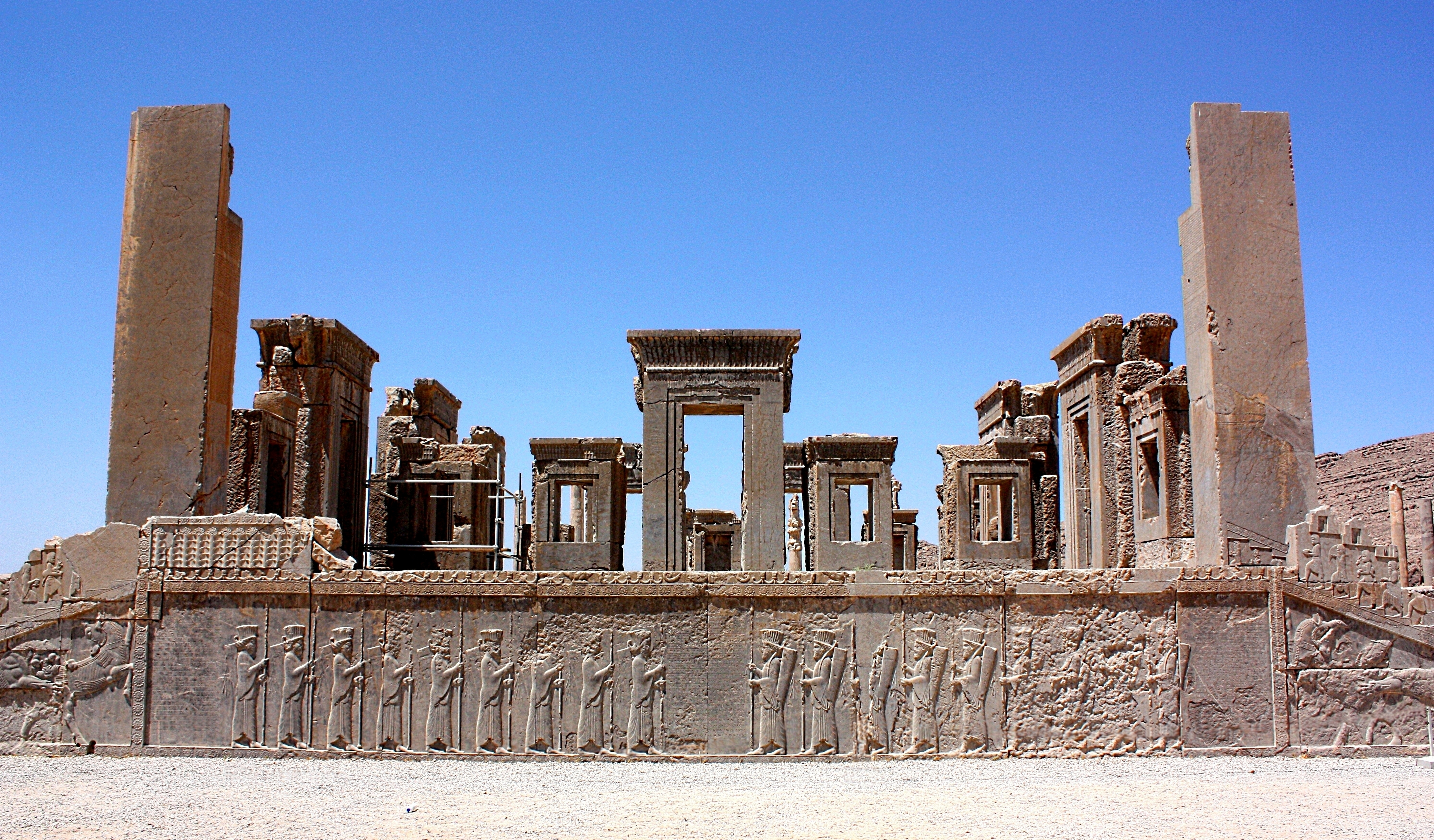 2500 years old Apadana Palace, persepolis, Fars Province, Iran.